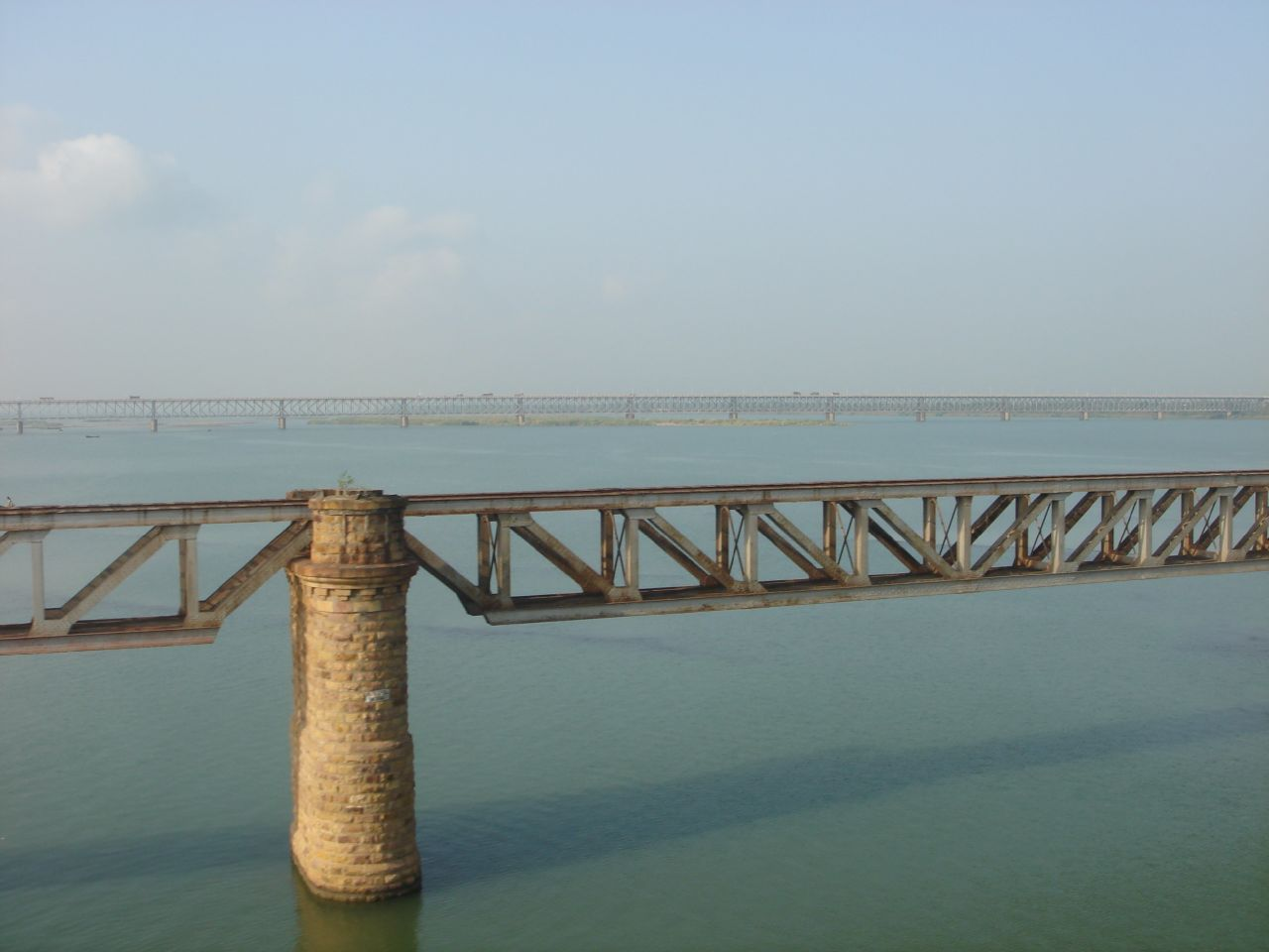 This is the oldest of three bridges on godavari river.100 years old still going strong.